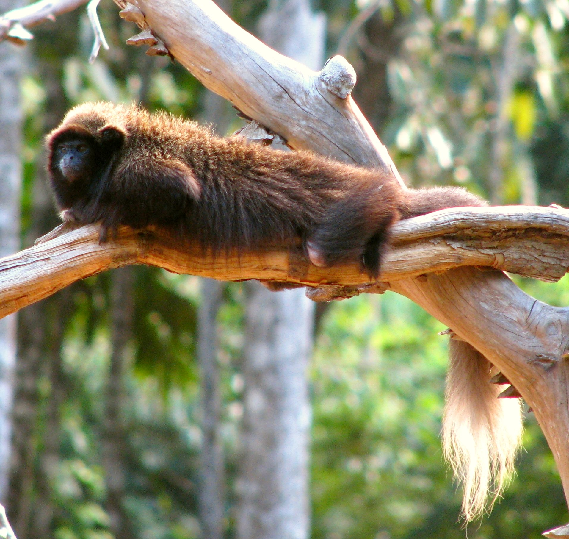 Black-fronted Titi (Callicebus nigrifrons) in Brazil.